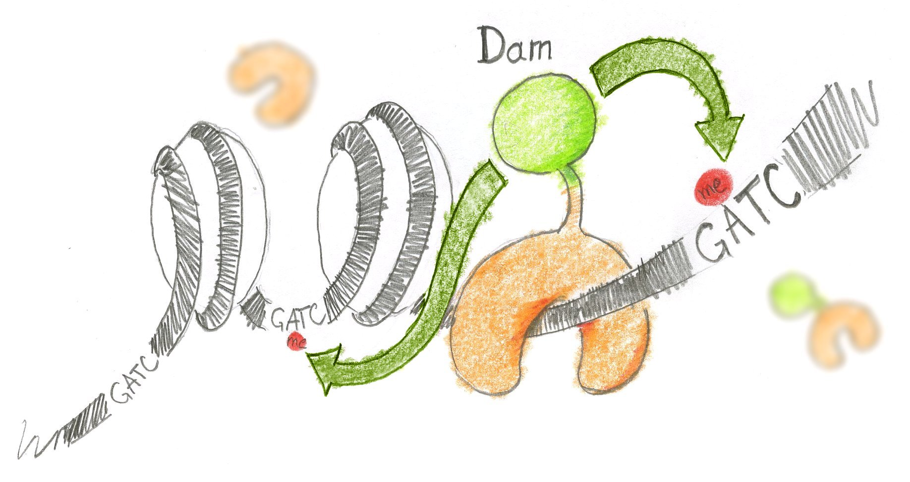 This cartoon explains the principle of the DamID technology.